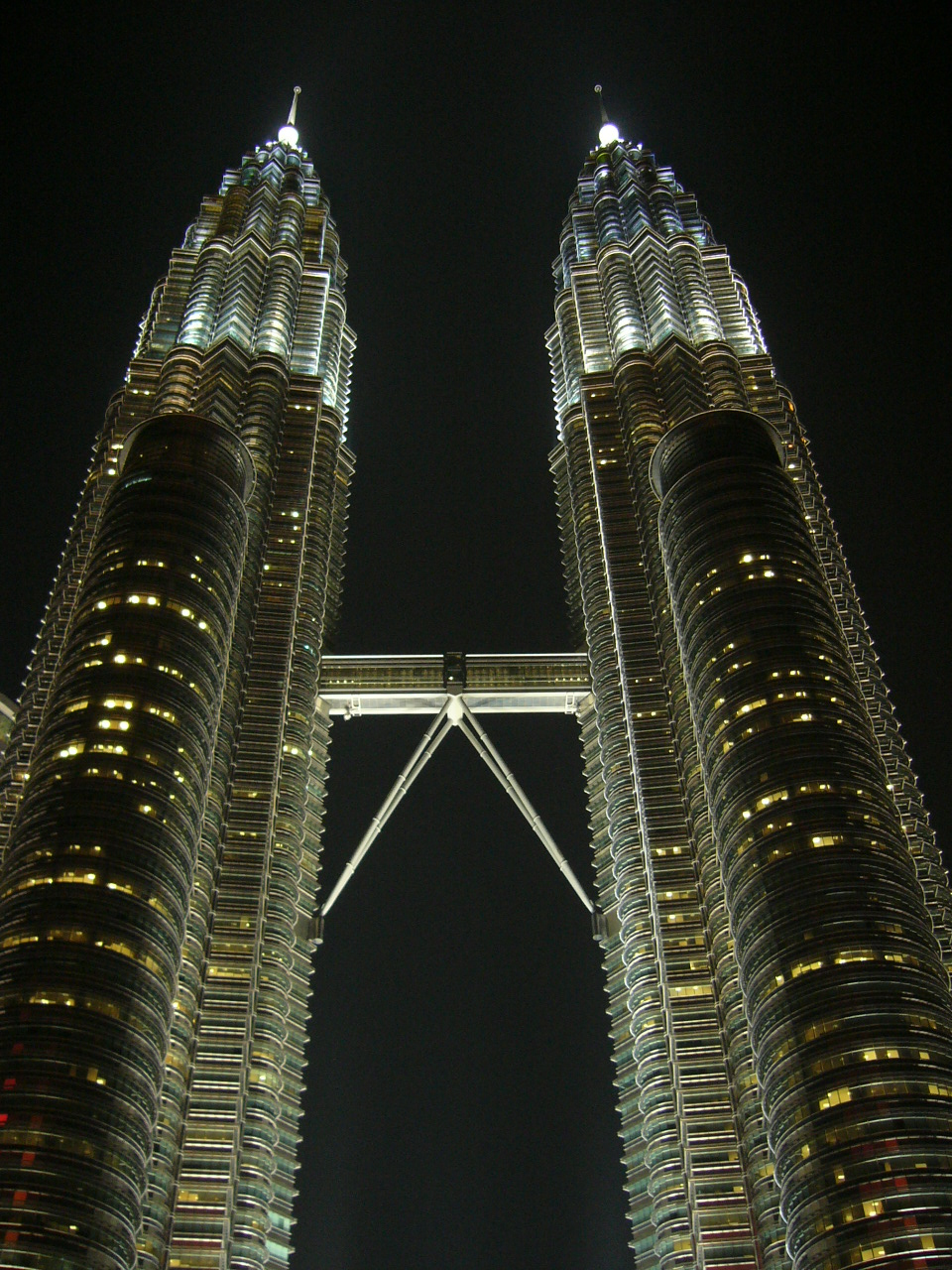 Author Shahnoor Habib Munmun